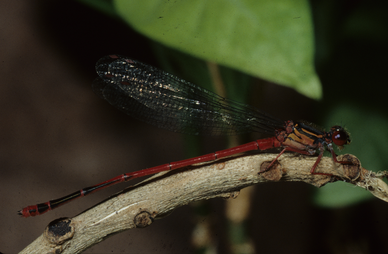 Megalagrion oceanicum Male oceanic Hawaiian damselfly Photo: Dan Polhemus